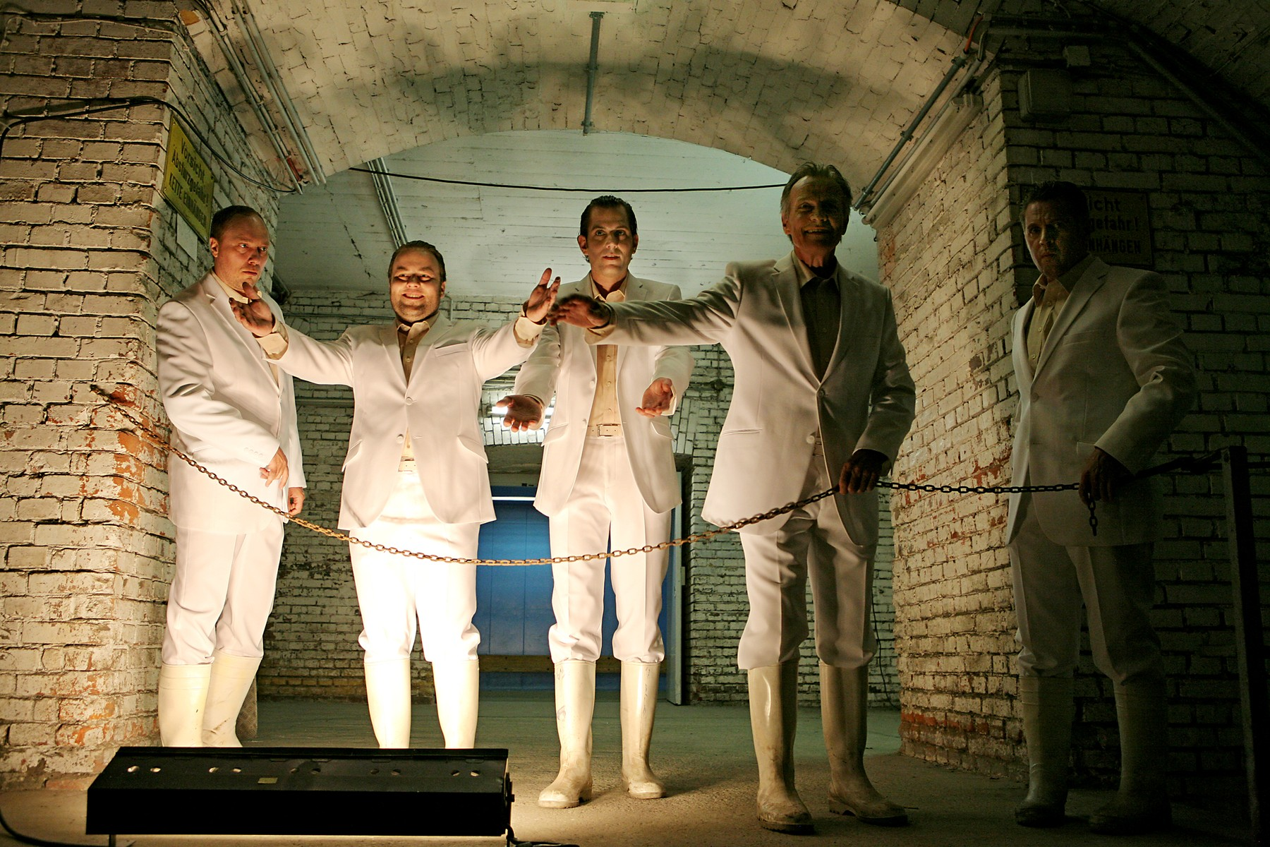 Production photo of Peter Weiss' The Investigation at Staatstheater Nuremberg (Congress Hall, Nazi party rally grounds), June 2009, awarded with the Nuremberg Theatre Award in October 2010, director: Kathrin Maedler, photographer: Marion Buehrle